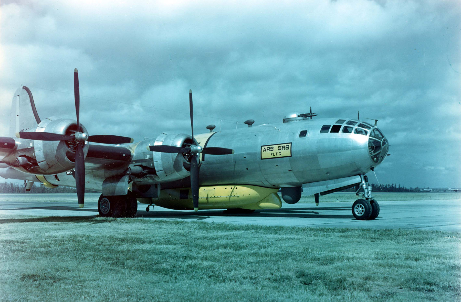 Fifteen B-29s and one B-29A were adapted for air rescue duty after World War II. Nicknamed "Super Dumbo" and designated SB-29. These aircraft were modified to carry an air-droppable A-3 Edo lifeboat. The primary mission of the SB-29 was rescue support for units flying long distances over water. The "Super Dumbo" retained all the defensive armament of the production bomber with the exception of the forward lower gun turret which was removed to make room for the AN/APQ-13 radome just behind the nose landing gear. When a downed aircrew was spotted in the water, the lifeboat was released from the aircraft. The lifeboat, which descended by parachute, was equipped with watertight compartments, self-righting floatation bladders, an inboard engine, food and water. The SB-29 remained in service throughout the Korean Conflict and into the mid-1950s.